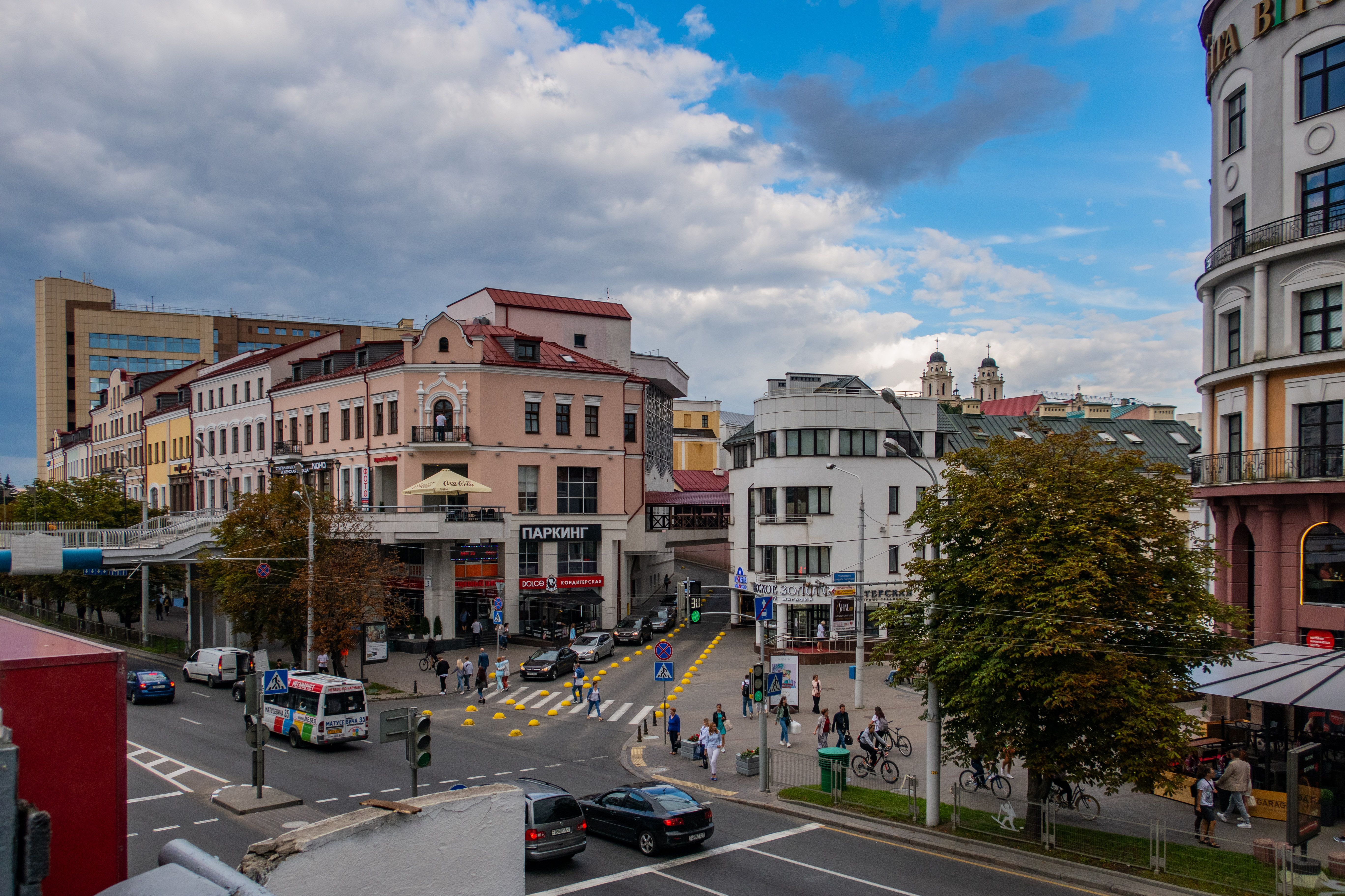 Pseudo-historical remake of Niamhia street. Minsk, Belarus